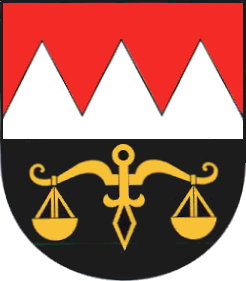 Coat of Arms of Veilsdorf.